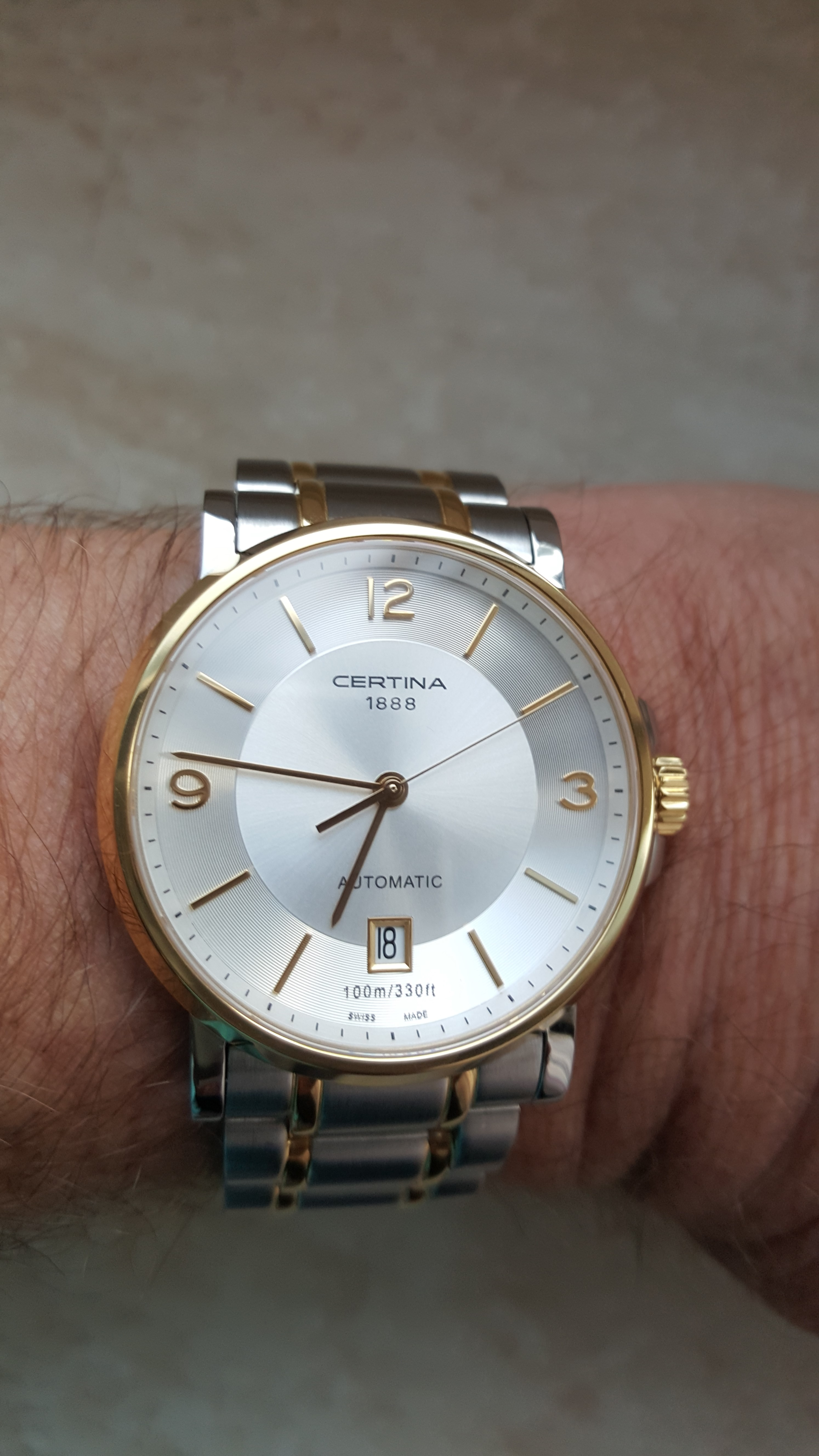 Certina Caimano Automatic C0174072203700, analogue, for gents, day display, two-tone steel/gold plate, Metal bracelet, water resistancy: 100 metres, Clasp type: push-button Deployment www